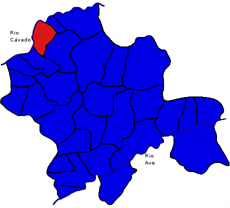 Map of Verim in Povoa de Lanhoso, Portugal